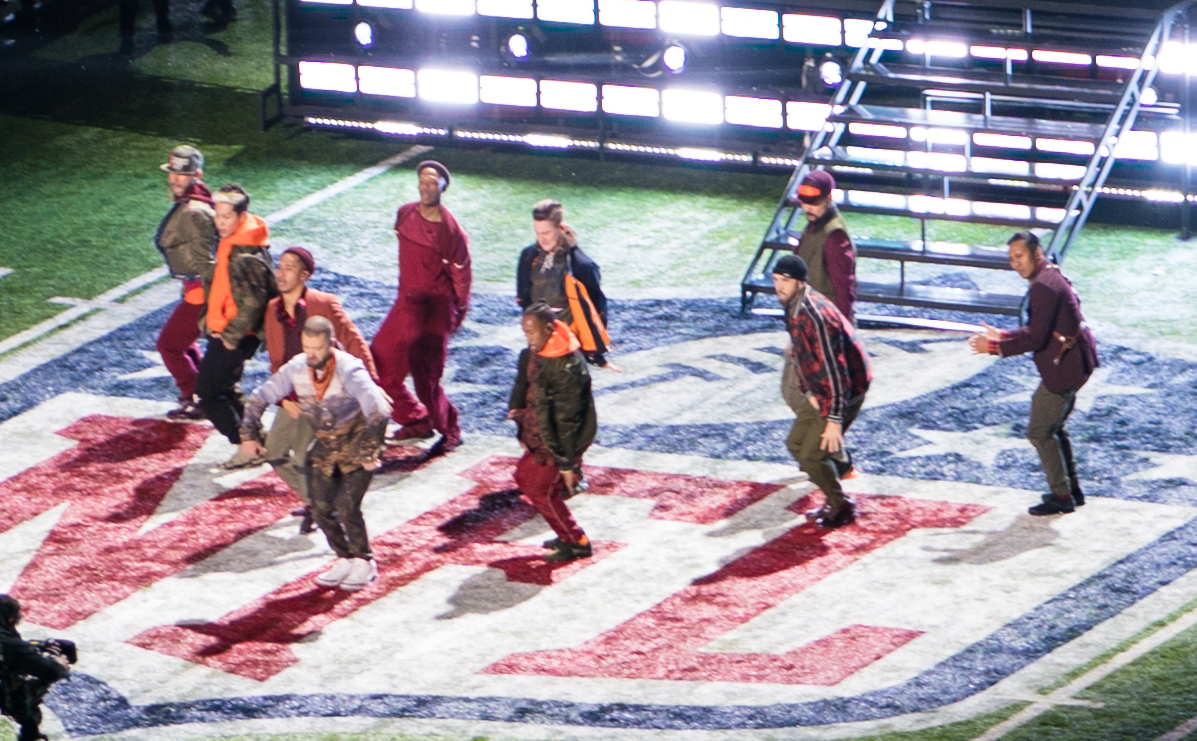 "Cry Me A River"